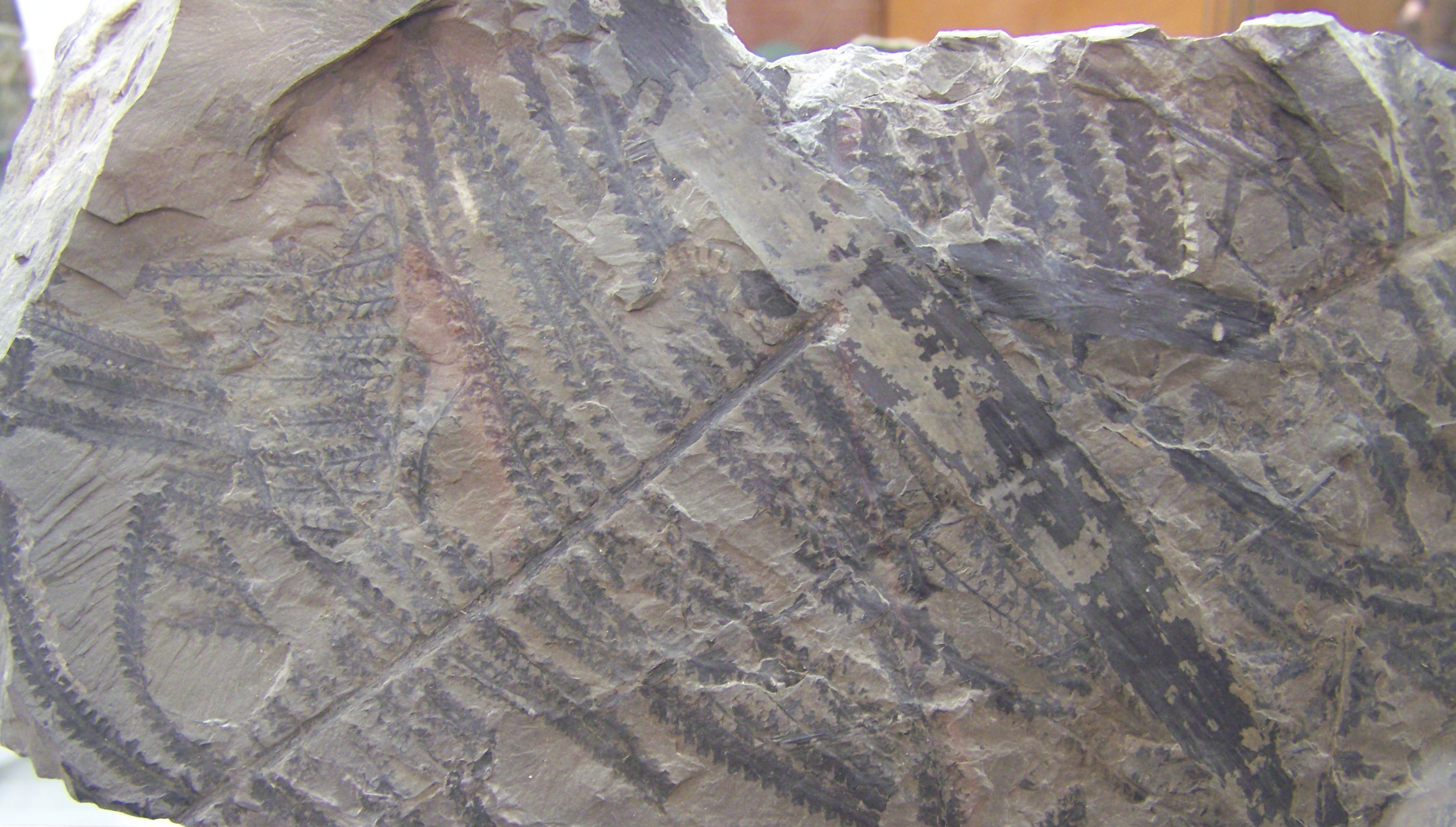 Fossils of plant species Alloiopteris erosa, Upper Carboniferous. Width of the picture ca. 25 cm. Collection of the Universiteit Utrecht.